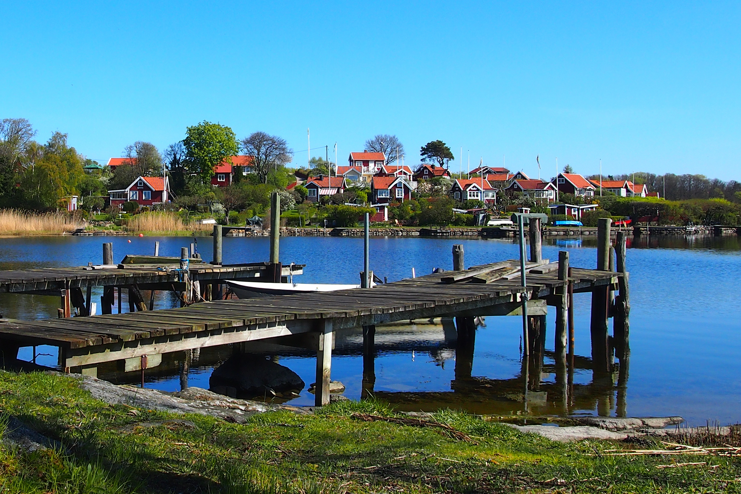 Brändaholm, view from Saltö